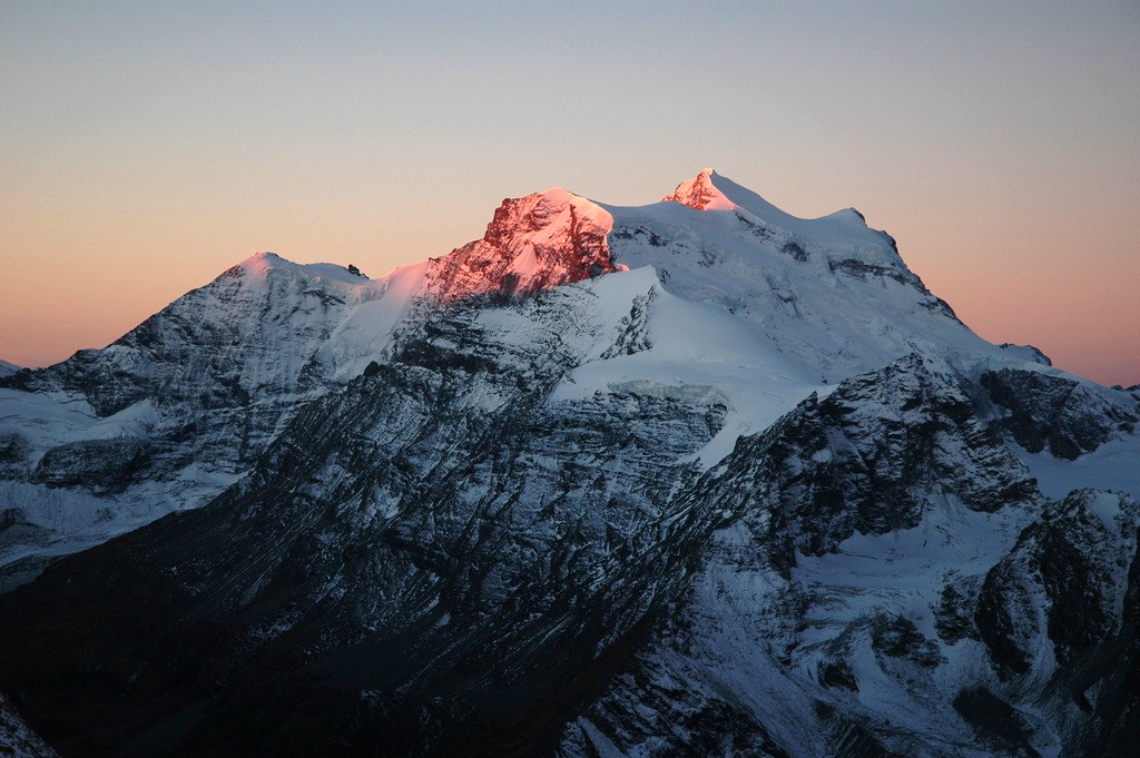 Grand Combin, near Verbier